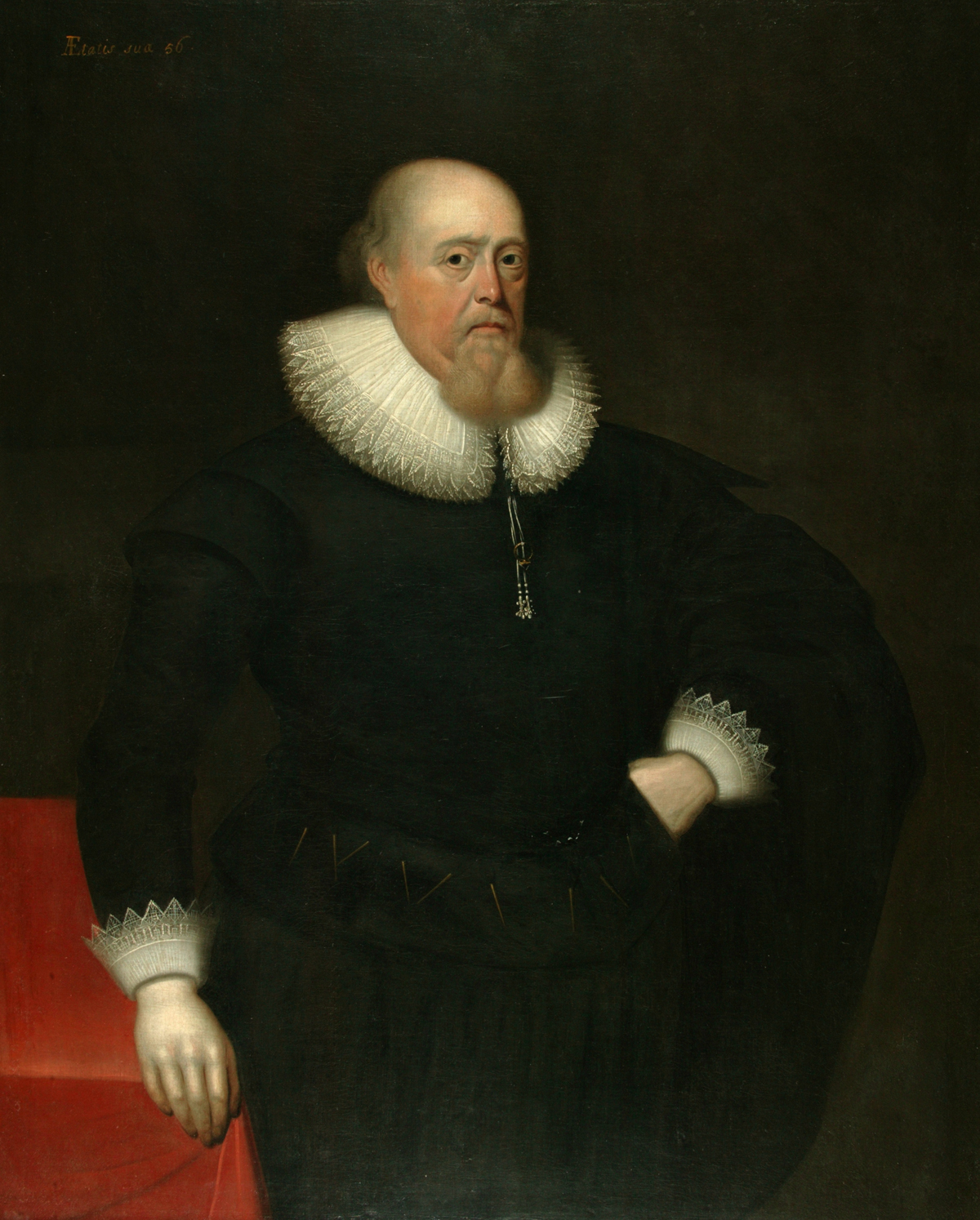 Portrait of Robert Tatton (1606-1669)